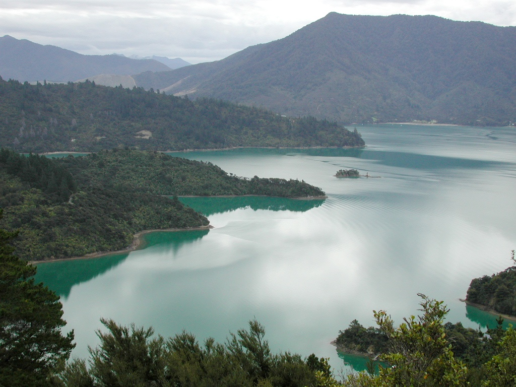 Te Mahia Bay - photo taken from Queen Charlotte Track